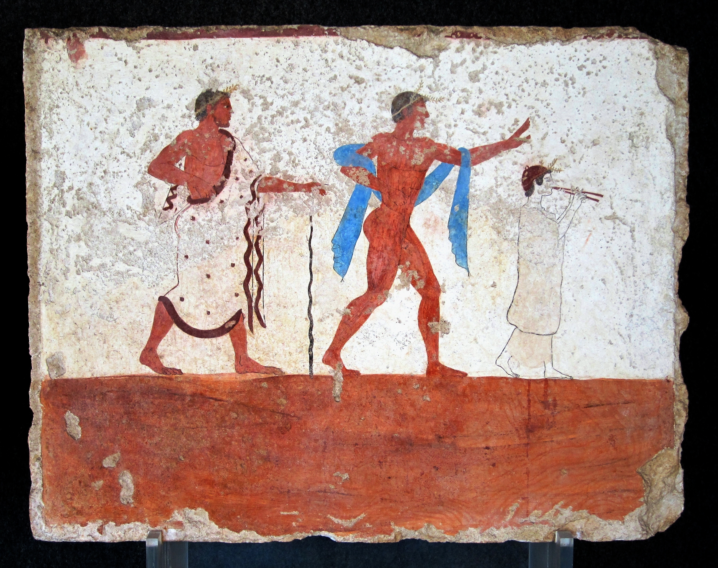 West wall of the Tomb of the diver in Paestum (470-480 BC).